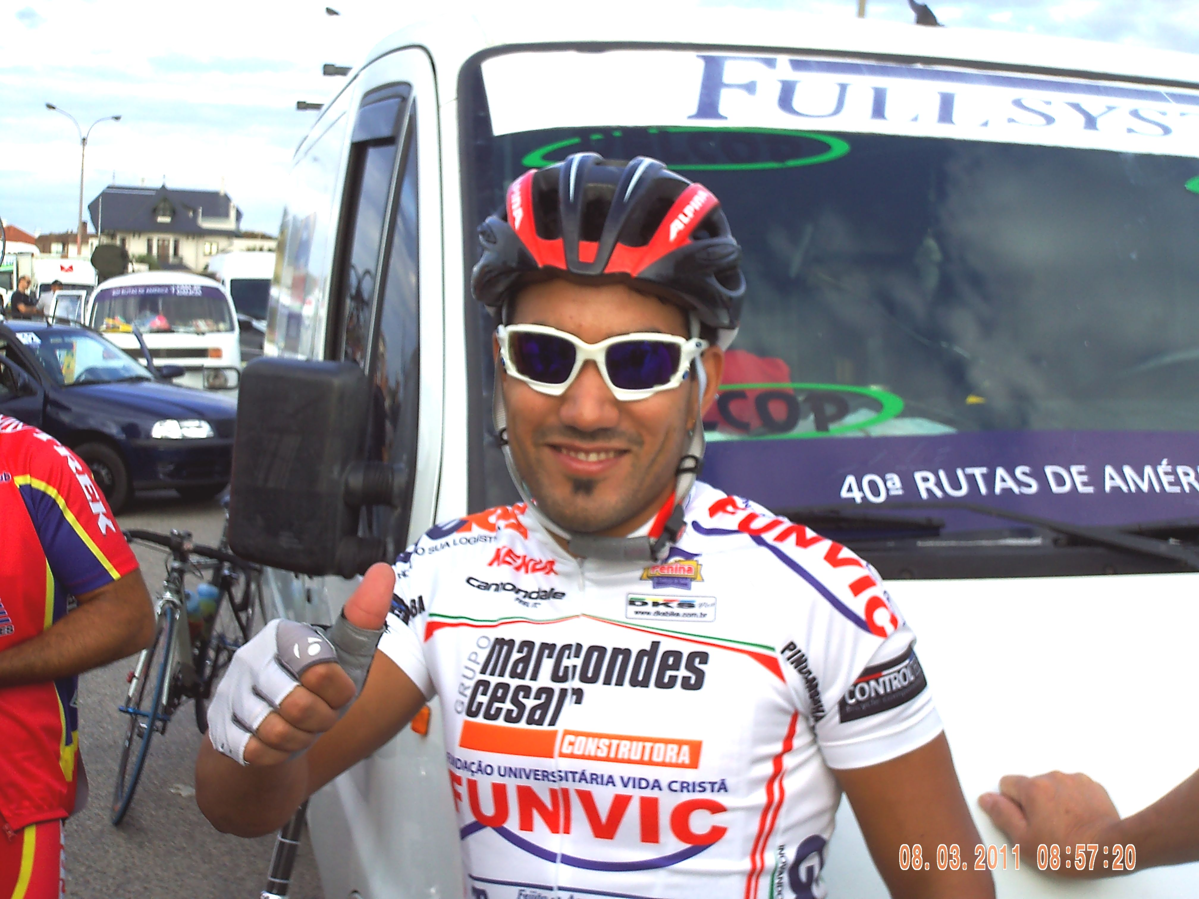 Héctor Aguilar, uruguayan ciclist defender of Funvic-Pindamonhangaba (Brazil) before the beginning Rutas de América 2011